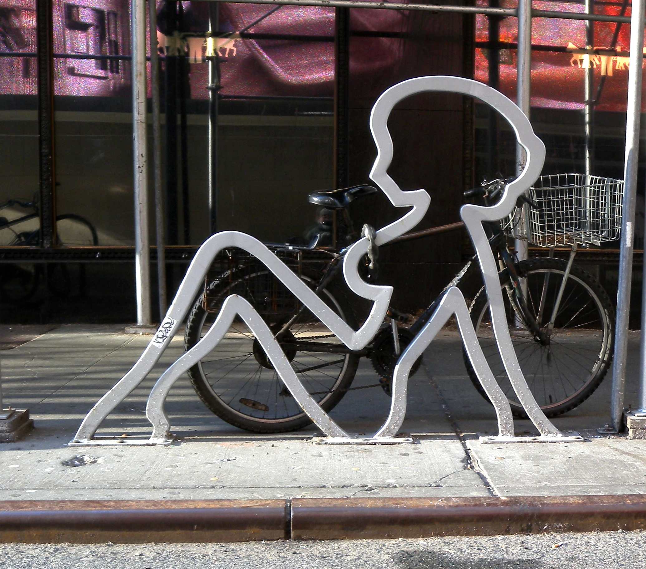 Looking south at 44th Street rack with a bike chained to it.